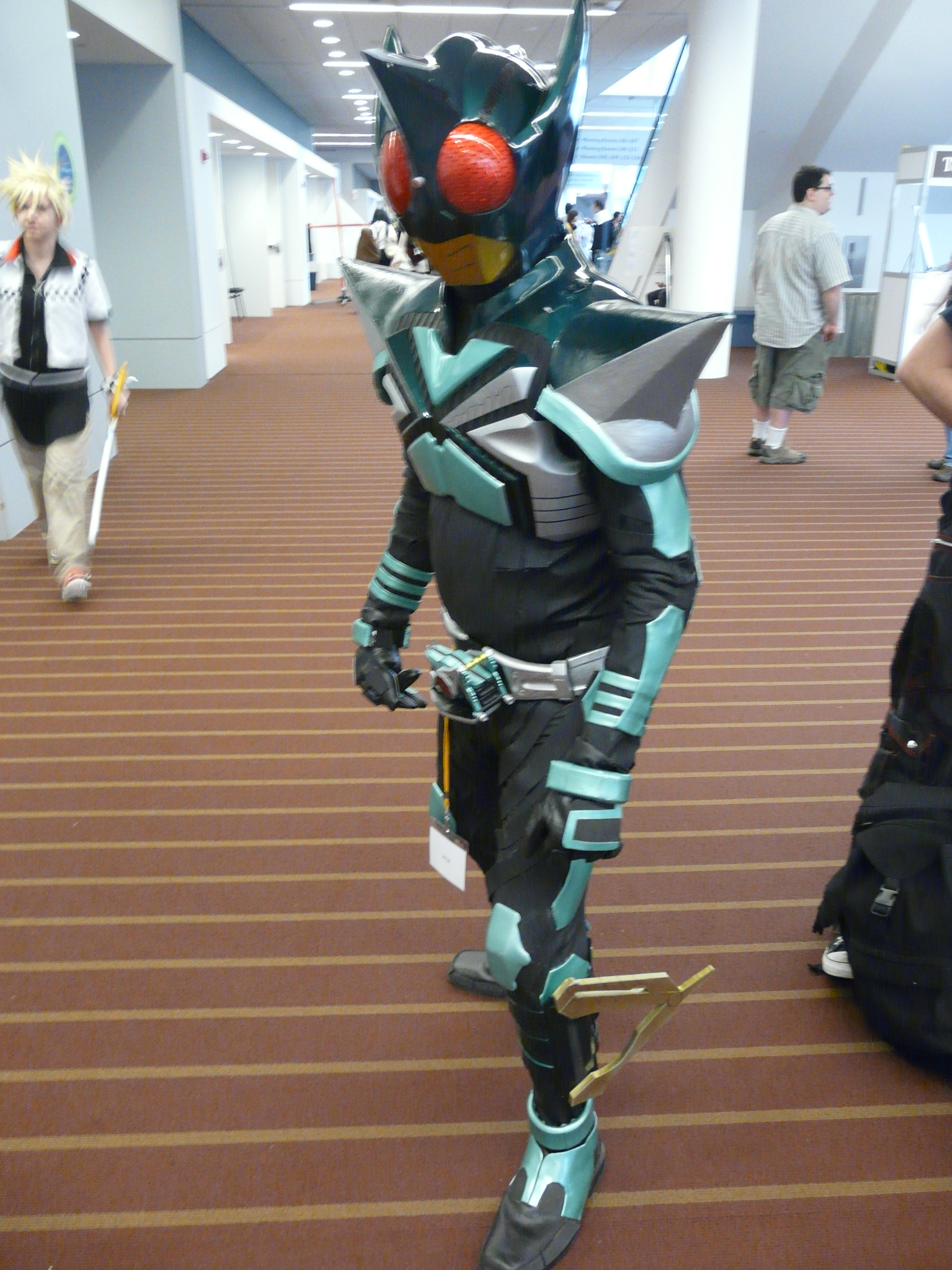 Tekkoshocon at David L. Lawrence Convention Center (2010)